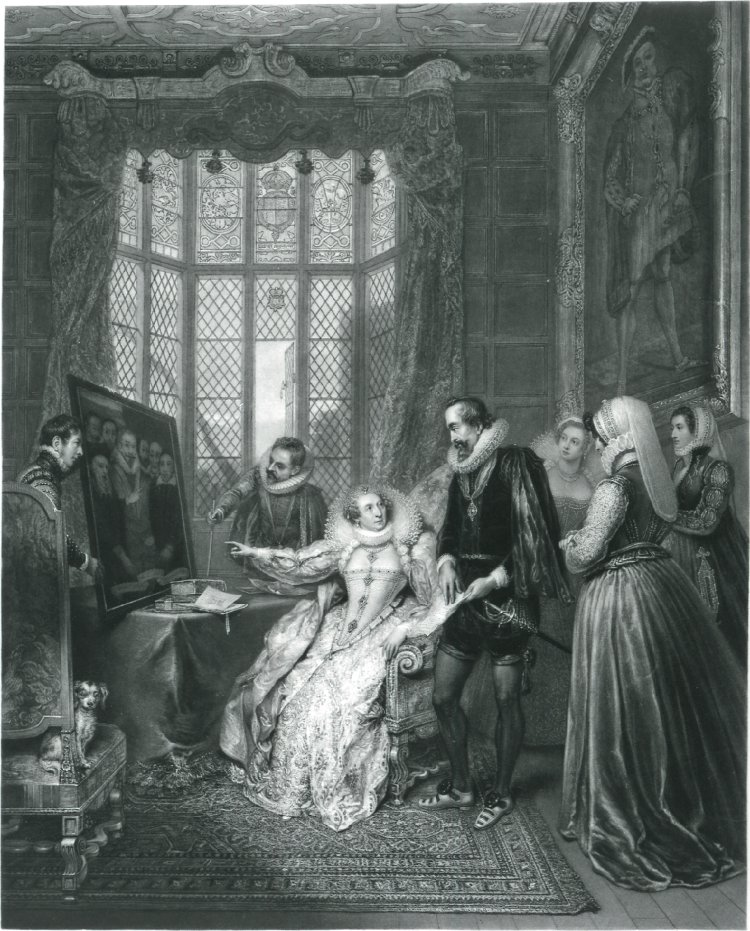 "Queen Elizabeth attended by her secretary, Sir Francis Walsingham, detecting Babington's conspiracy," mezzotint with some etching and drypoint, by the British artist and printmaker John Charles Bromley. Published by Robert Bowyer & Mary Parkes, 46 Pall Mall. 658 mm x 550 mm. Courtesy of the British Museum, London.